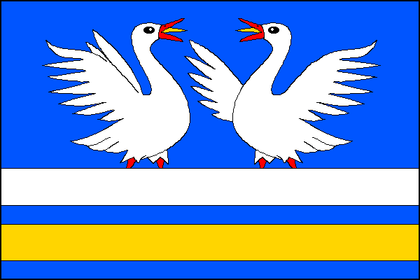 Municipal flag of Kšely village, Kolín District, Czech Republic.